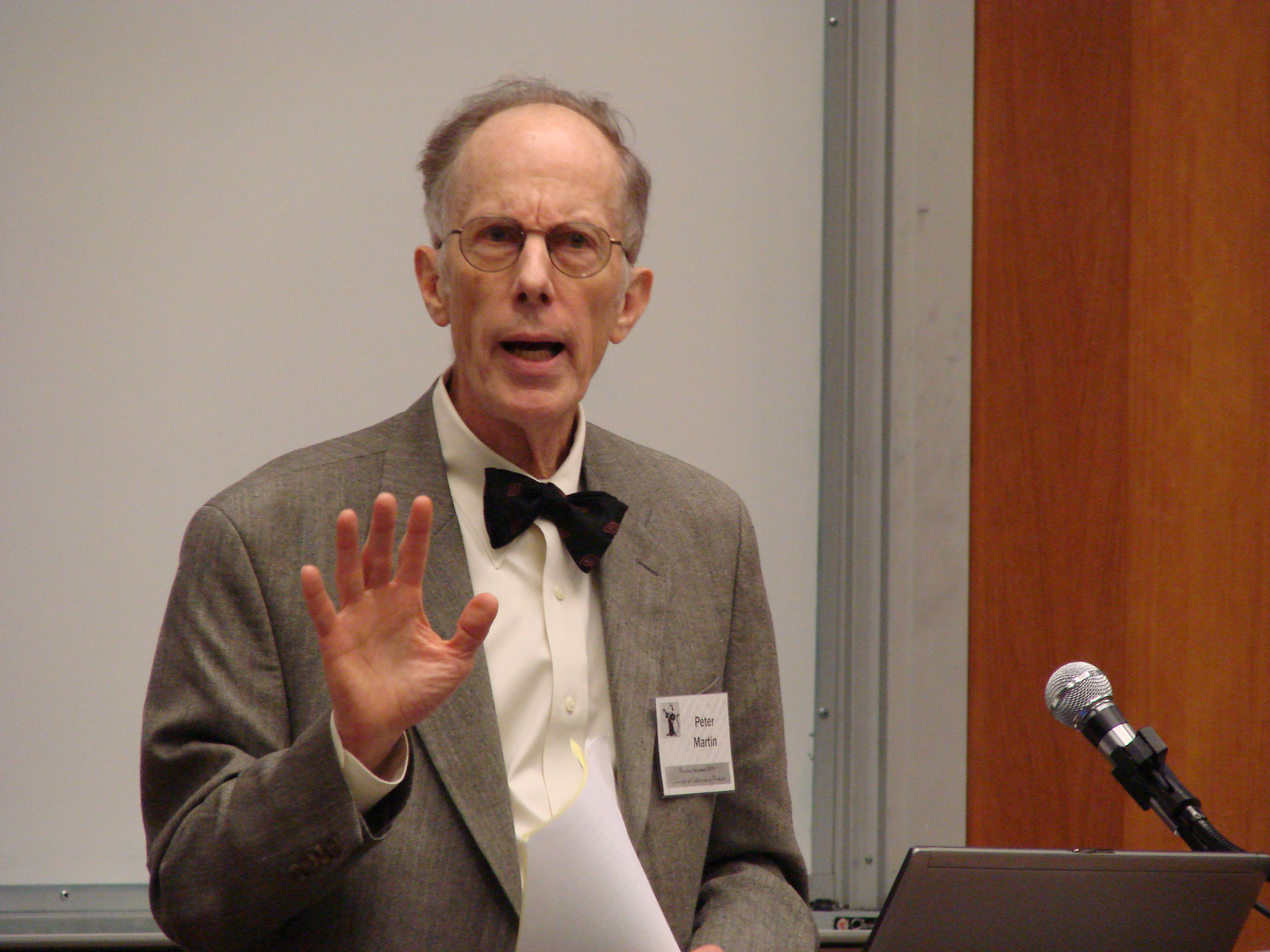 Peter W. Martin (born 1939), Jane M.G. Foster Professor of Law, Emeritus, and former dean of Cornell Law School, co-founder of Cornell's Legal Information Institute